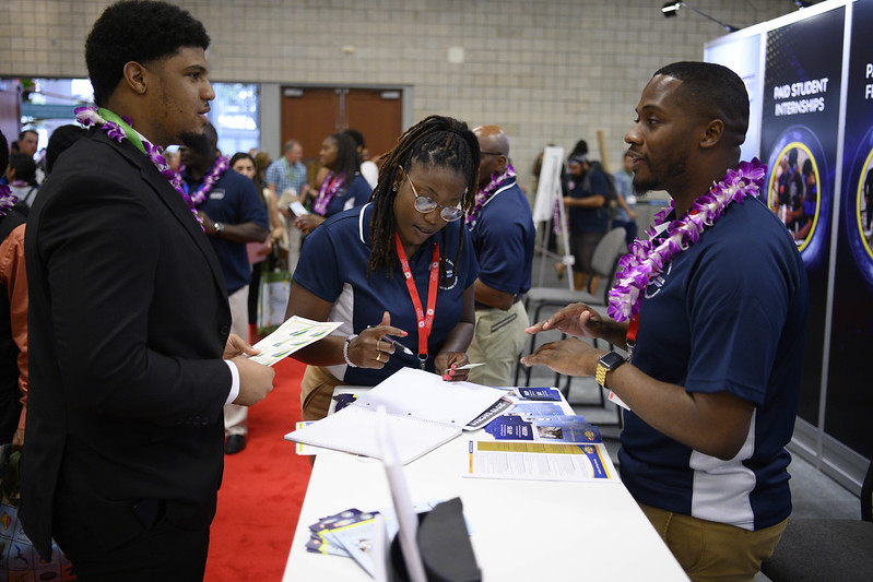 191031-N-PO203-0176 HONOLULU, Hawaii (Oct. 31, 2019) Layvon Washington, right, contract support for the Office of Naval Research, discusses paid internship opportunities with a visitor to the Department of the Navy (DoN) Historically Black Colleges and Universities/Minority Institutions (HBCU/MI) Program exhibit during the 2019 Society for Advancement of Chicanos/Hispanics & Native Americans in Science (SACNAS) conference on October 31, 2019, in Honolulu, Hawaii. (U.S. Navy photo by John F. Williams)